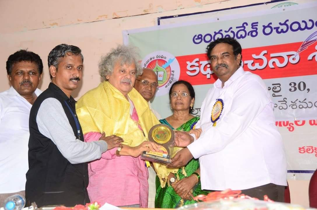 ఆంధ్రప్రదేశ్ రచయితల సంఘంచే సన్మానం